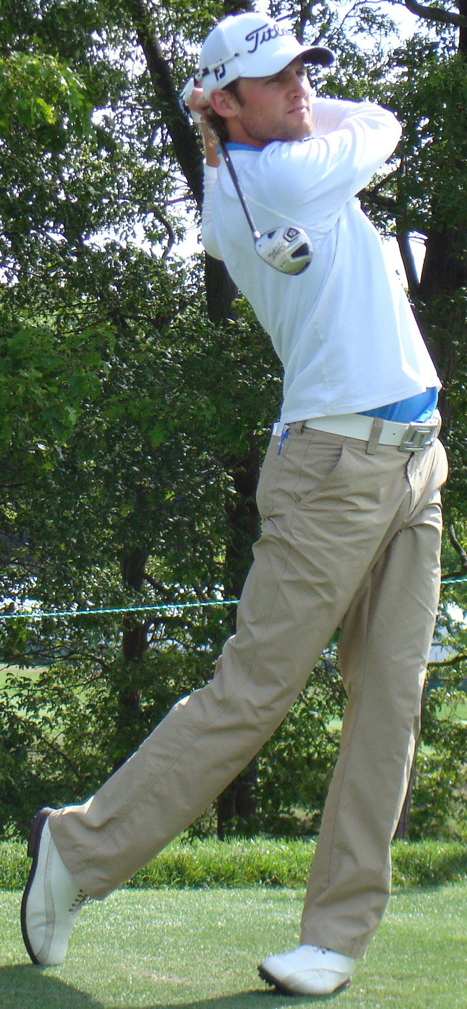 Michael Sim tees off during the Wednesday practice round at the 2009 US Open